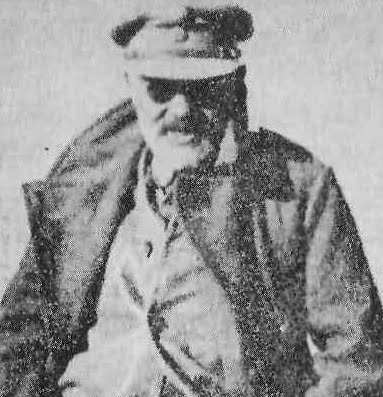 Colonel C.Tsigantes in North Africa, circa 1942